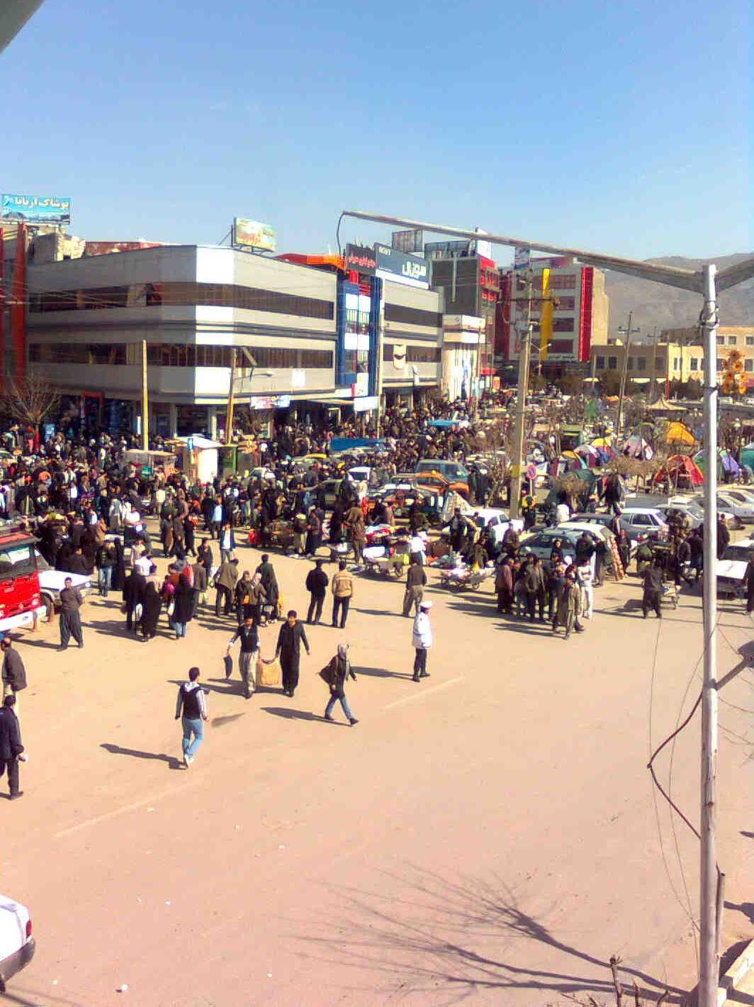 Crowded Trade Area_Baneh